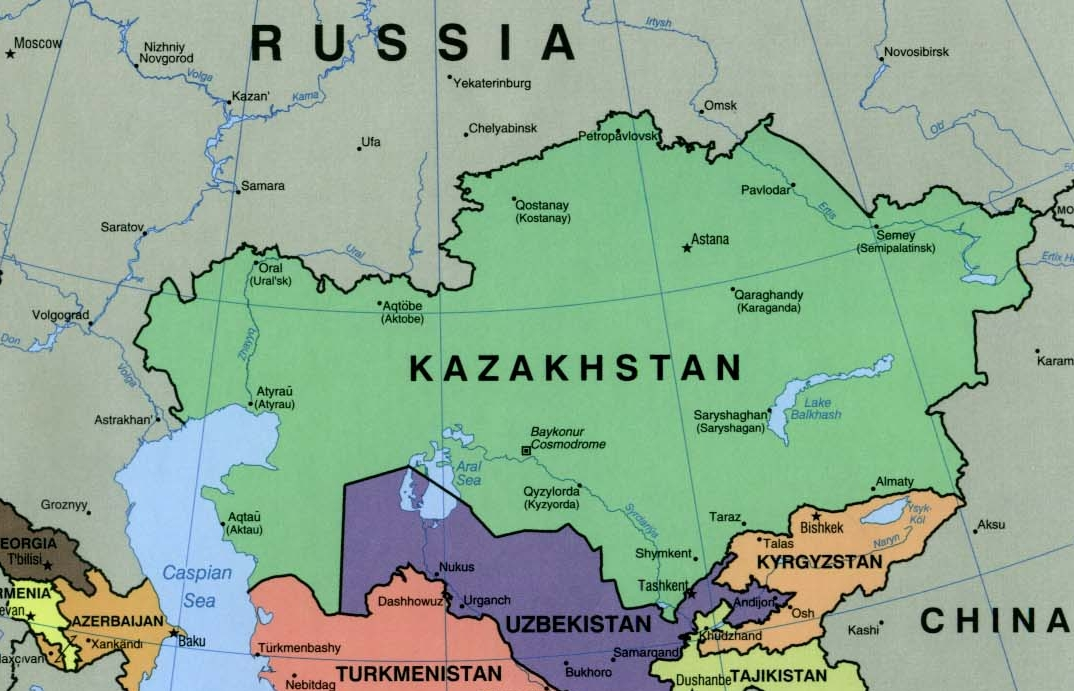 Kazakhstan Political Map 2000